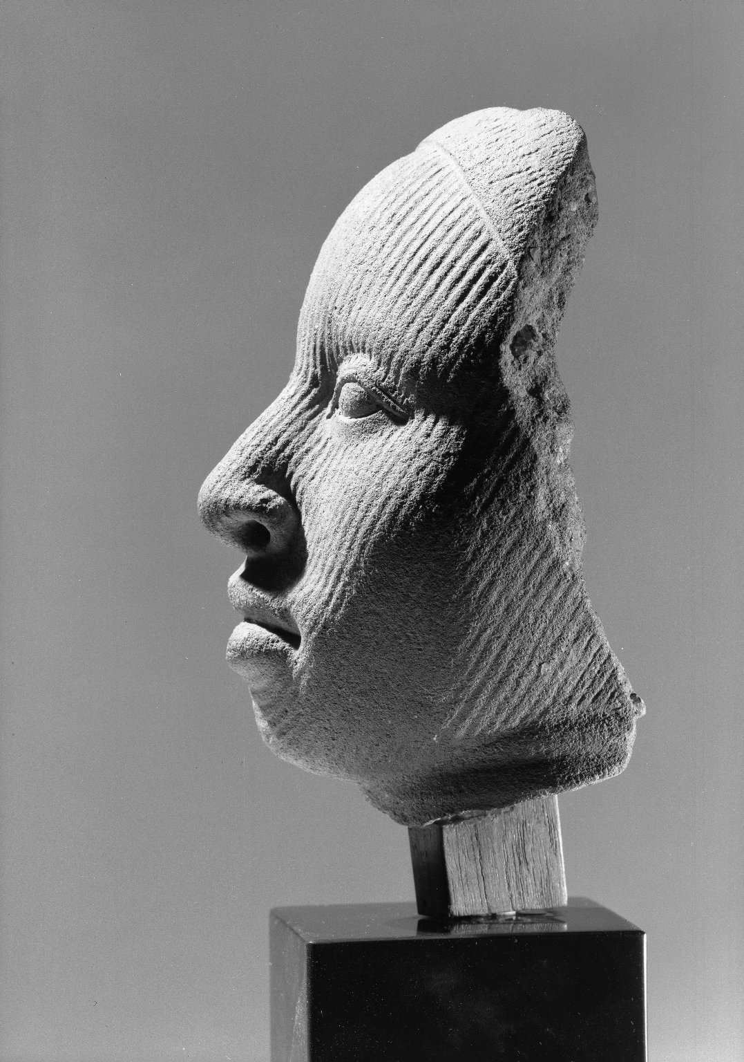 This terracotta head shows that Yoruba sculpture was highly developed a thousand years ago. The art of Ife interprets the human figure with extraordinary naturalism. This head represents the oni, or king of Ife. The exact purpose of the striations on the face is unknown—though they serve to emphasize the delicate modeling of the features.